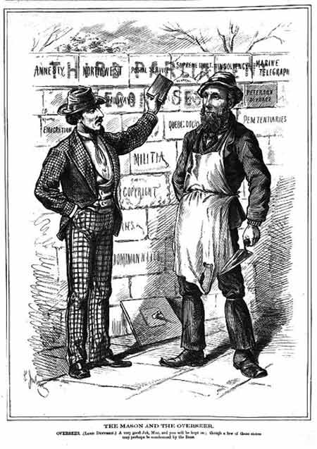 The Mason and the Overseer (Prime Minister Alexander Mackenzie (right) and Governor General Lord Dufferin(left)), 1875.